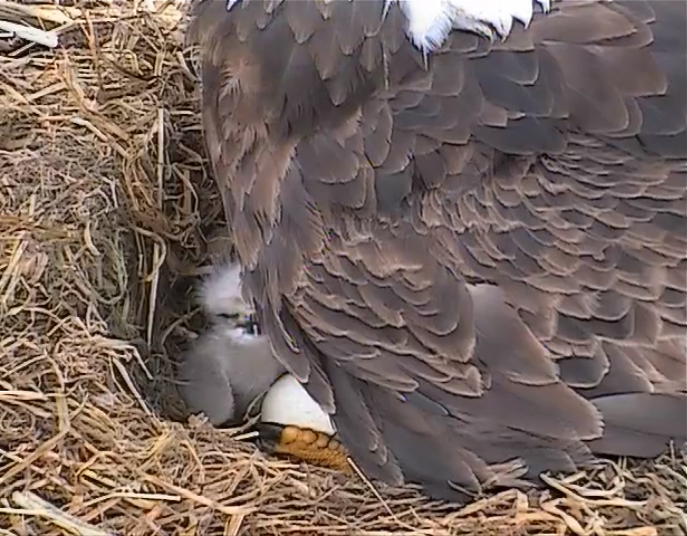 Decorah Bald Eagles UStream channel shows couples' 18th eaglet hatched on camera